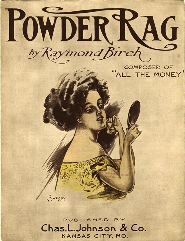 Powder Rag, 1908